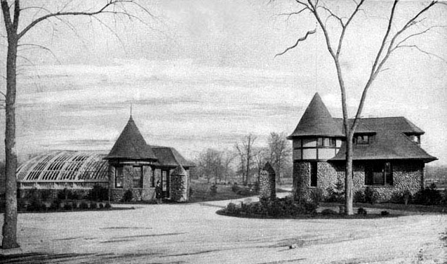 Gatehouse at Halcyon Park, Bloomfield, New Jersey from a promotional brochure circa 1895 Original image caption: MAIN ENTRANCE TO HALCYON PARK, GATE LODGE AND CONSERVATORY